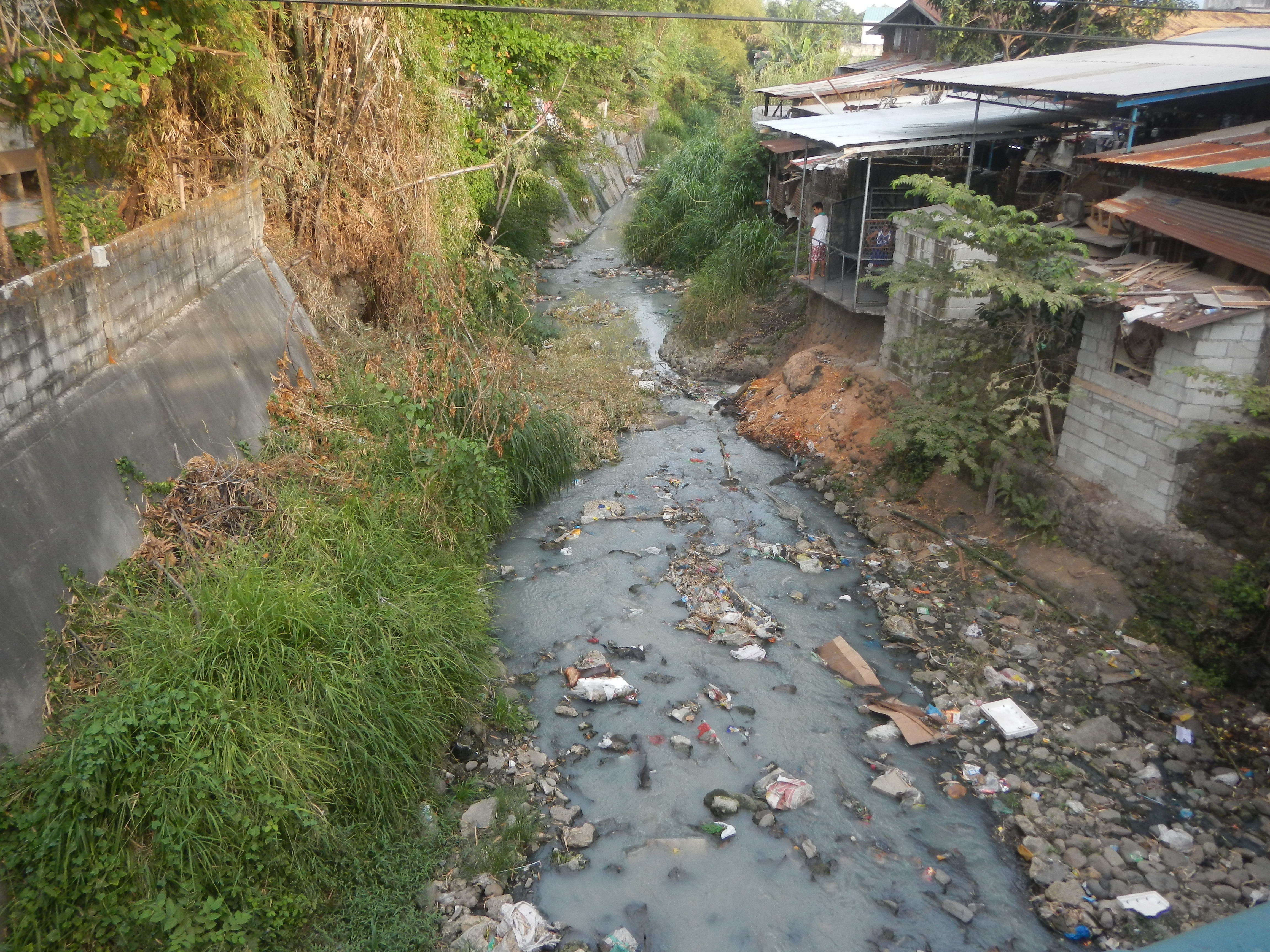 Engiekei Building (MacArthur Highway, Pulung Bulu, Angeles City) Jesus Street Pulung Bulu, Angeles City Bridge K082+254 18 metric tons load limit in Barangay Pulungbulu 15°7'53"N 120°35'51"E beside Santo Domingo 15°7'39"N 120°36'1"E Angeles City, Pampanga Pulung Bulu, Angeles City Bridge 15°7'53"N 120°35'51"E along MacArthur Highway or Manila North Road from the Lazatin Flyover (San Fernando, Pampanga), Radial Road 9 (Note: Judge Florentino Floro, the owner, to repeat, Donor Florentino Floro of all these photos hereby donate gratuitously, freely and unconditionally all these photos to and for Wikimedia Commons, exclusively, for public use of the public domain, and again without any condition whatsoever).